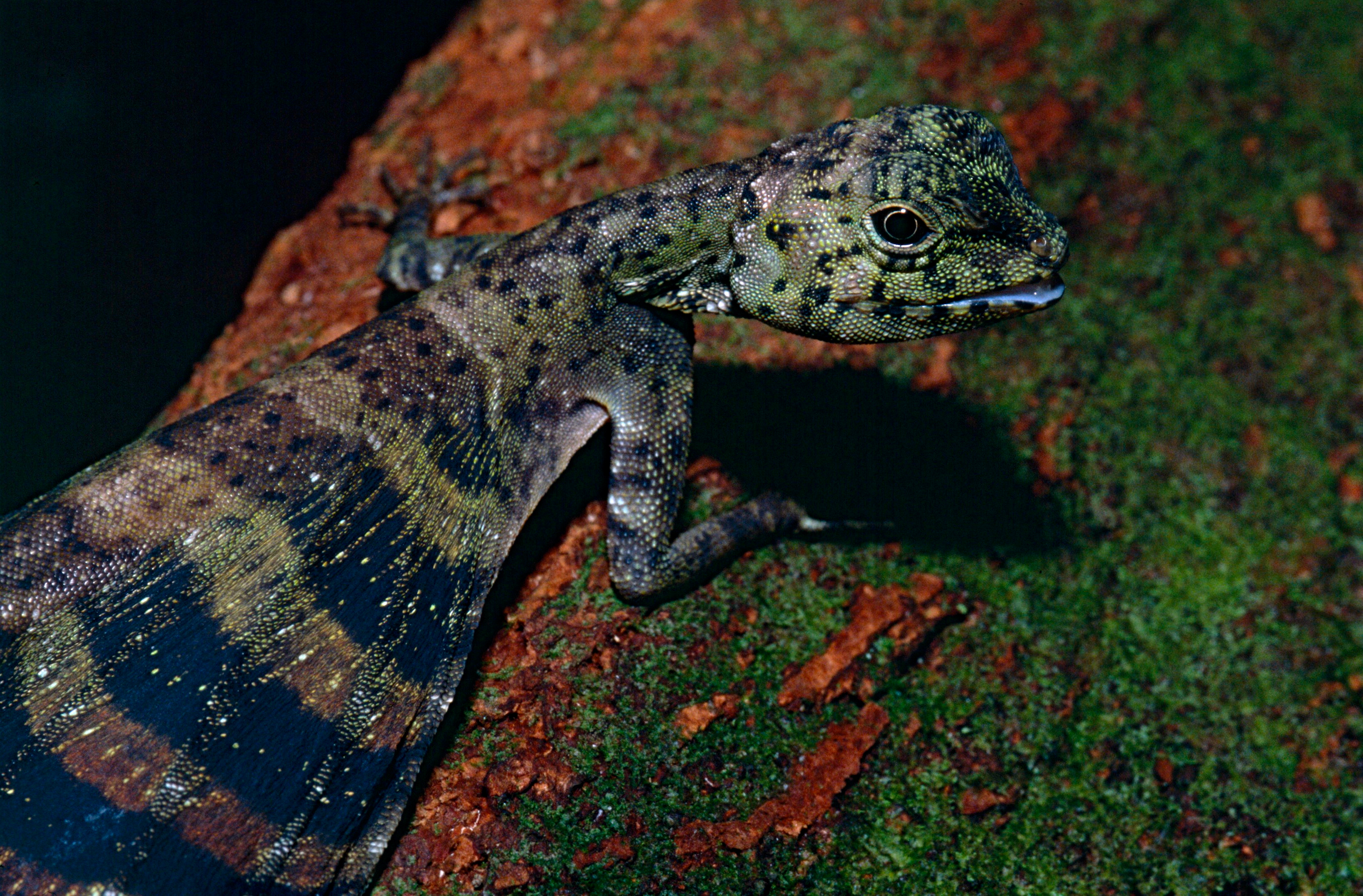 Bako NP, Sarawak, MALAYSIA Scanned slide from 2001